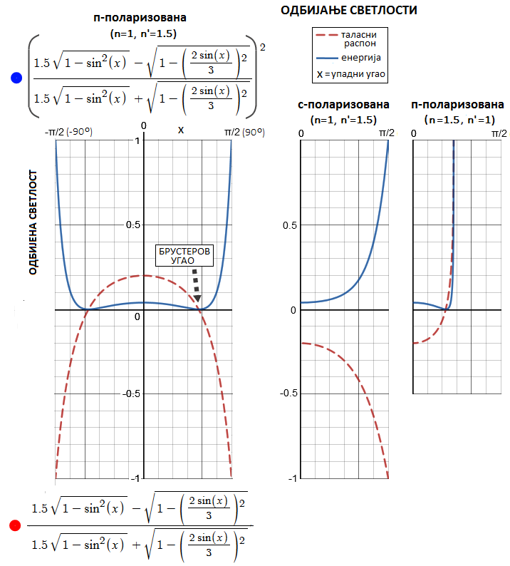 ОДБИЈАЊЕ СВЕТЛОСТИ